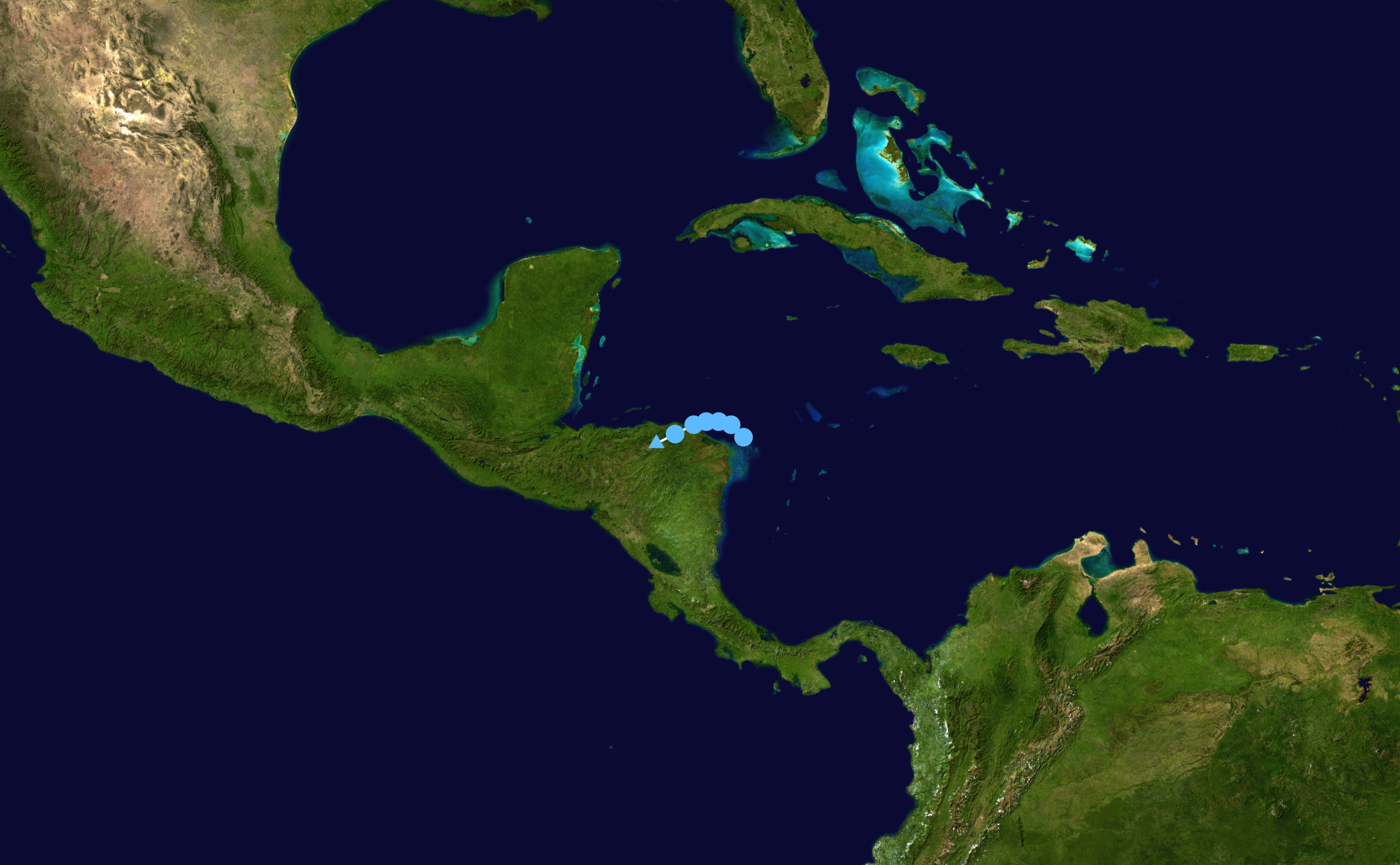 Track map of Tropical Depression Sixteen of the 2008 Atlantic hurricane season. The points show the location of the storm at 6-hour intervals. The colour represents the storm's maximum sustained wind speeds as classified in the Saffir–Simpson scale (see below), and the shape of the data points represent the nature of the storm, according to the legend below. Saffir–Simpson scale Tropical depression≤38 mph≤62 km/h Category 3111–129 mph178–208 km/h Tropical storm39–73 mph63–118 km/h Category 4130–156 mph209–251 km/h Category 174–95 mph119–153 km/h Category 5≥157 mph≥252 km/h Category 296–110 mph154–177 km/h Unknown Storm type Tropical cyclone Subtropical cyclone Extratropical cyclone / Remnant low / Tropical disturbance / Monsoon depression